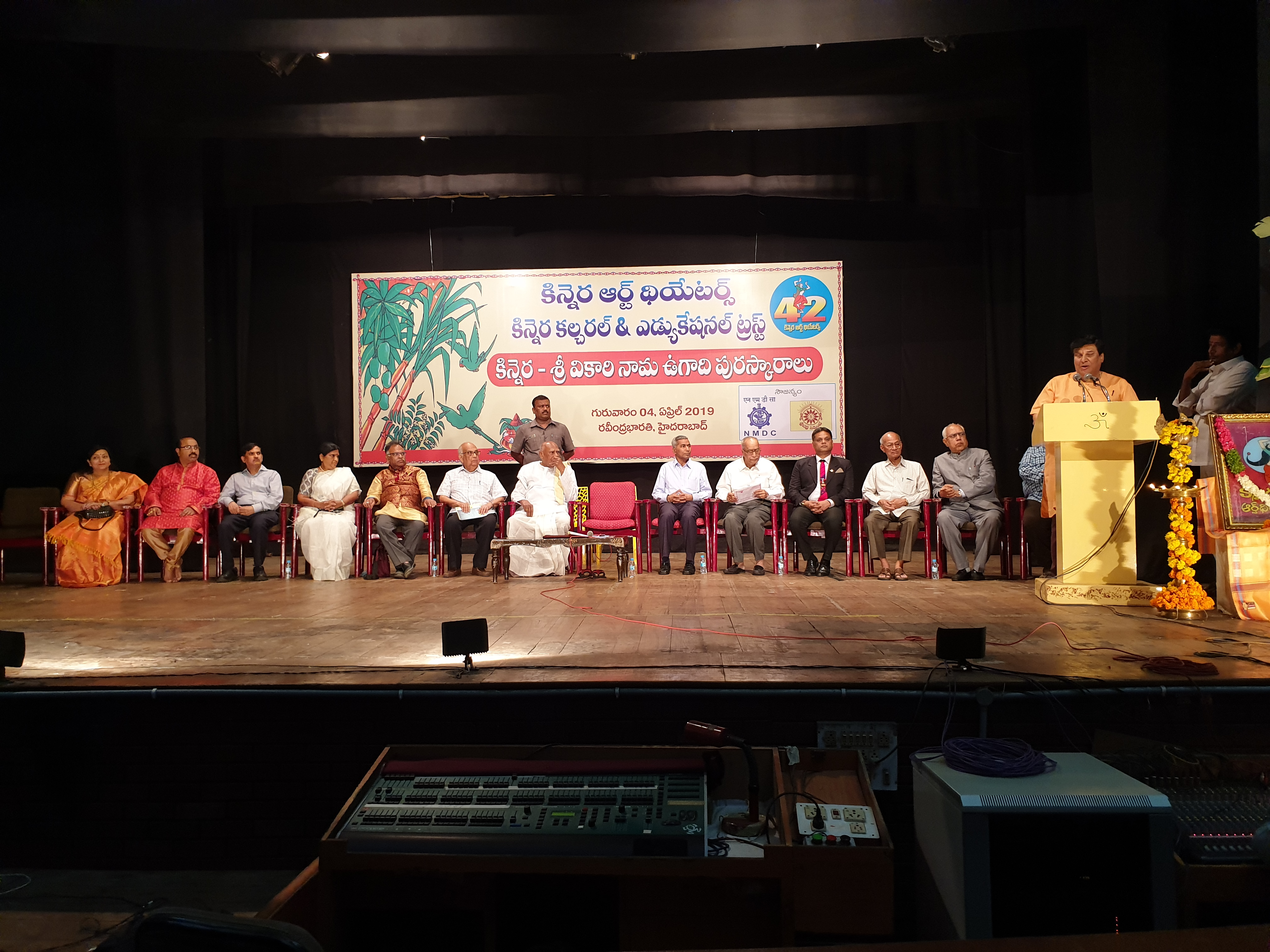 2019 function of Ugadi puraskars given by Kinnera Art Theatres at Ravindra Bharati.